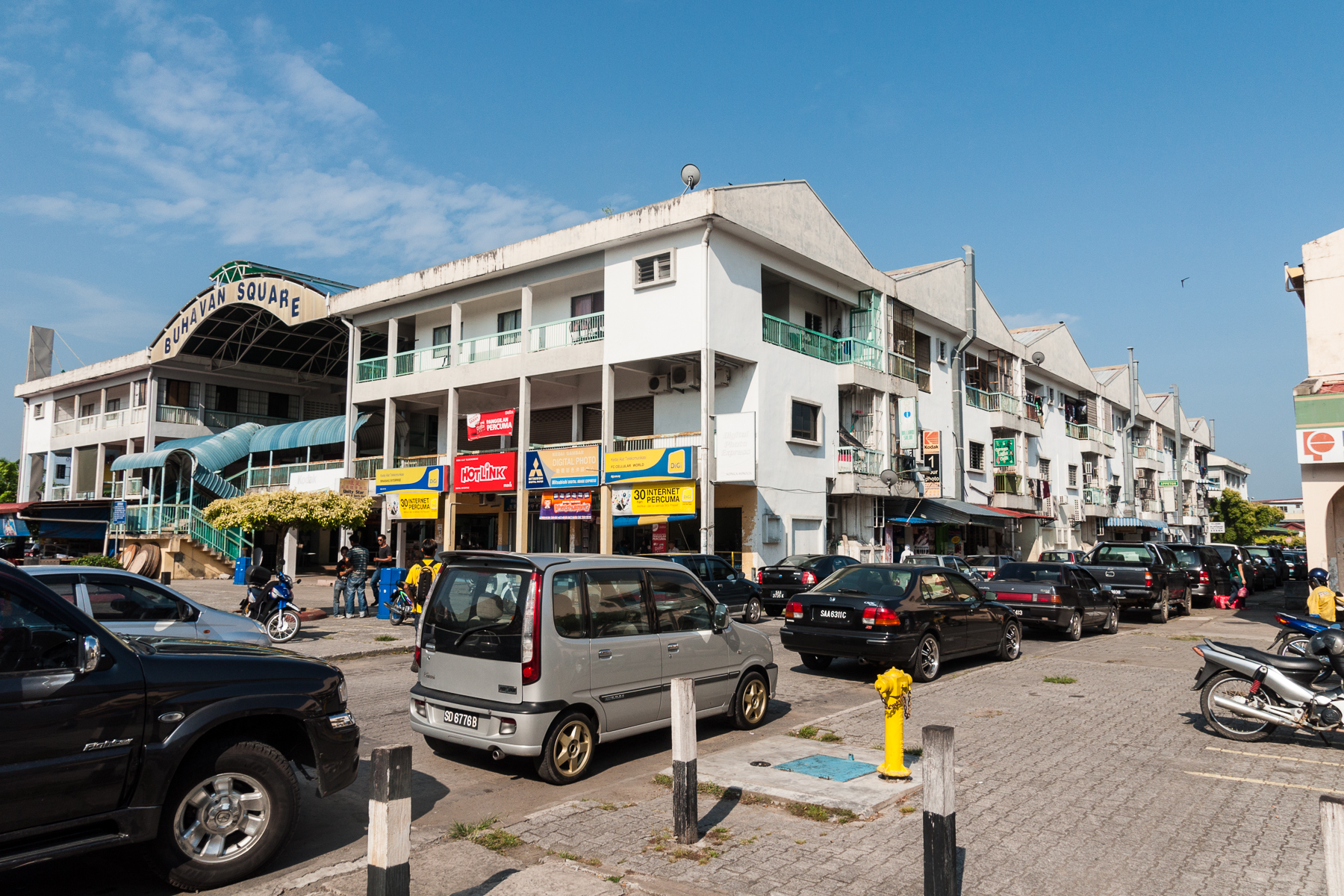 Penampang, Sabah: Buhavan Square Donggongon